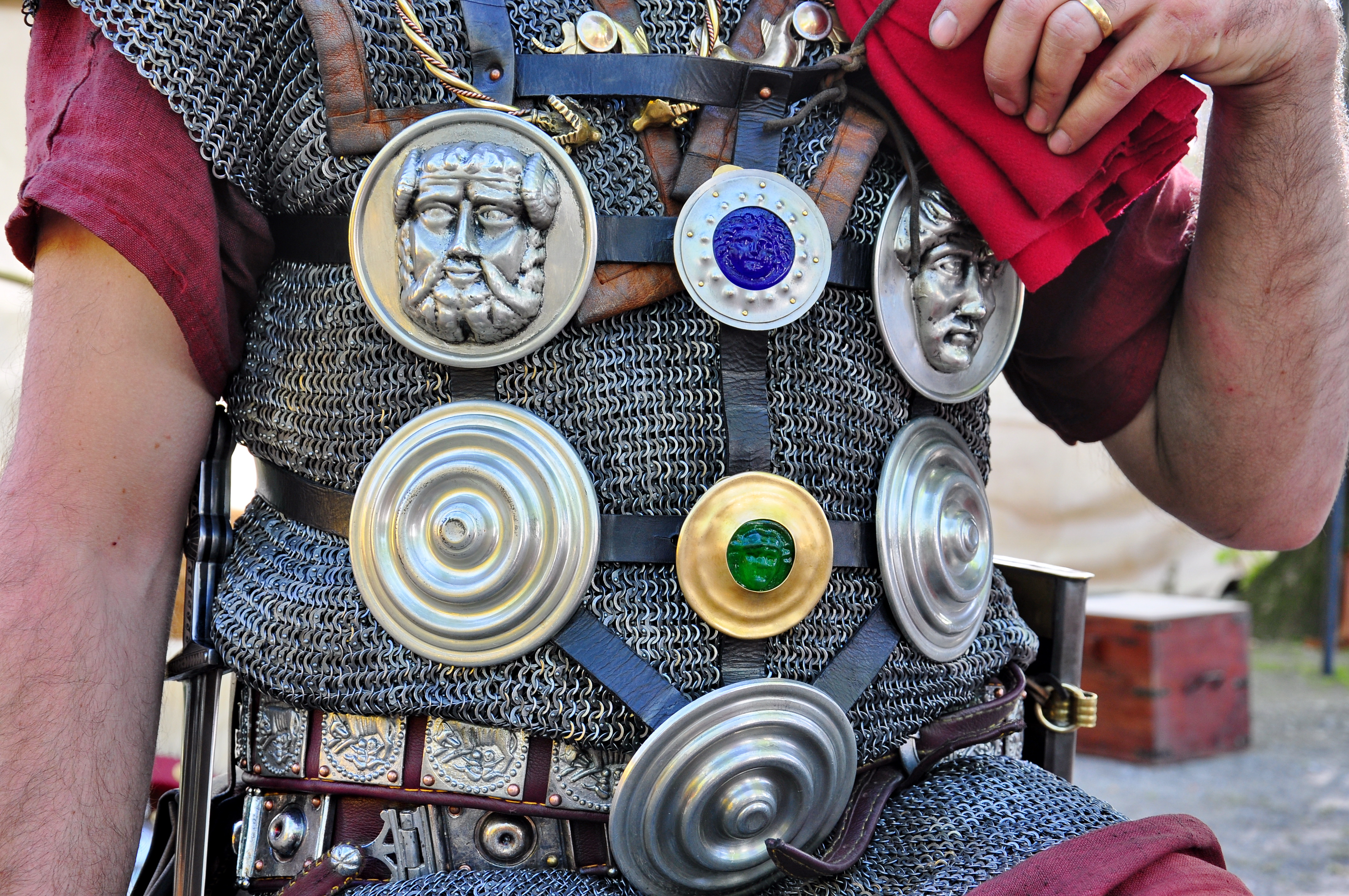 Legio XXI Rapax, 'guests' on Lindenhof plaza respectively Pfalzgasse in Zürich (Switzerland) on Friday-Monday before Sechseläuten in April 2011